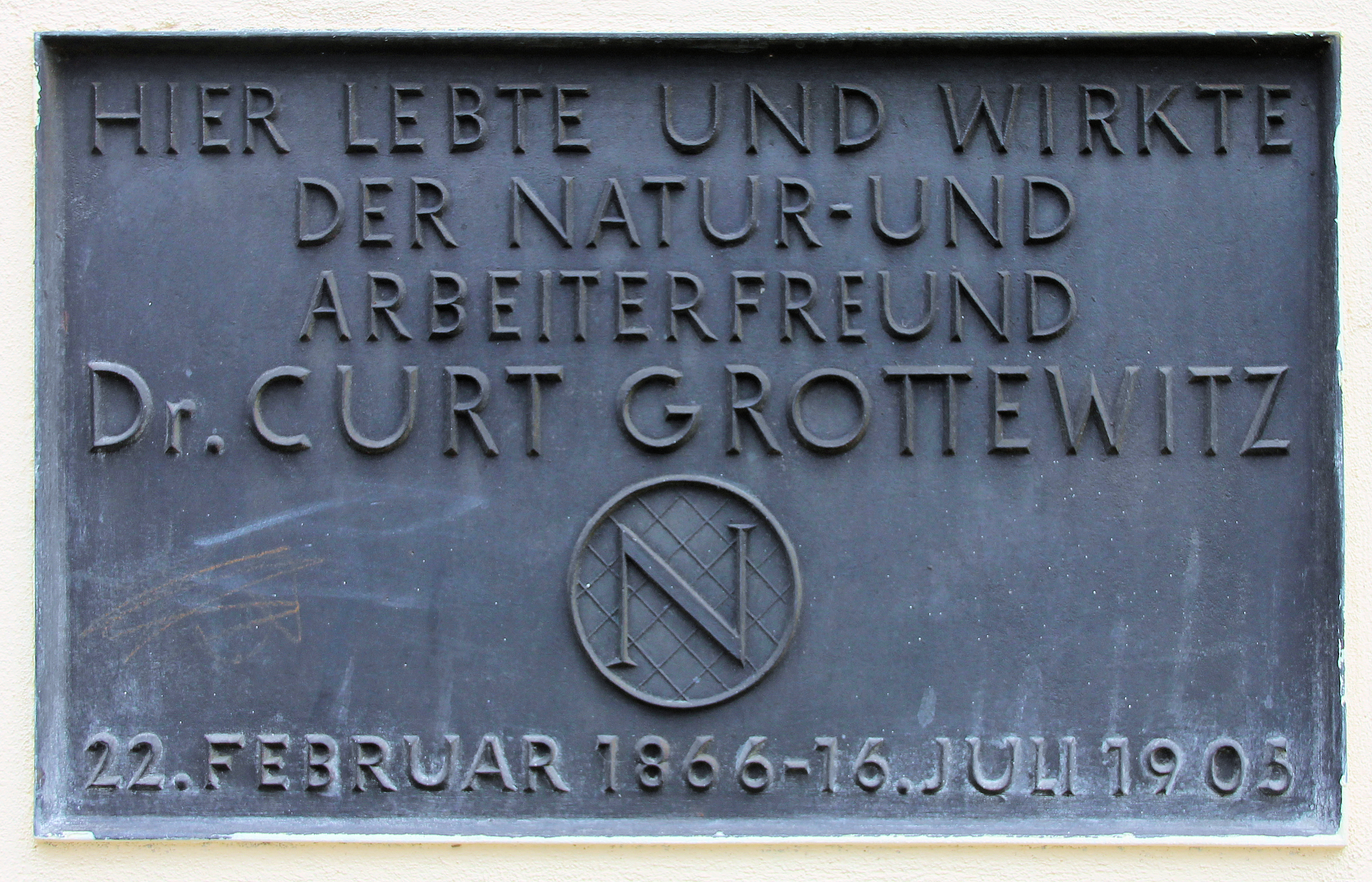 Memorial plaque, Curt Grottewitz, Alt-Müggelheim 15, Berlin-Müggelheim, Germany